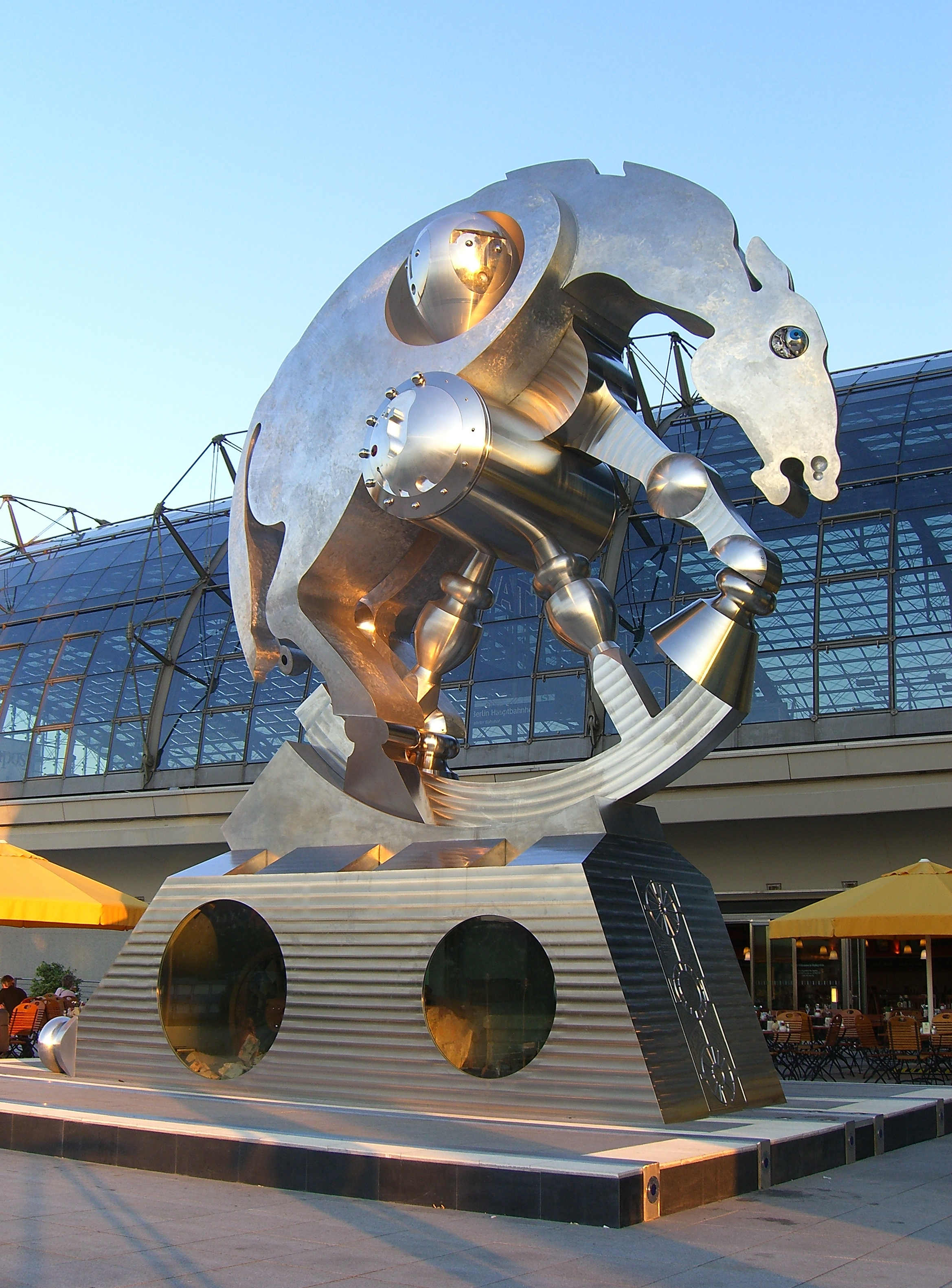 sculpture 'Rolling Horse' at the Berlin Central Station sculpted by professor Jürgen Goertz; height: approx. 10 m, weight: 35 tons